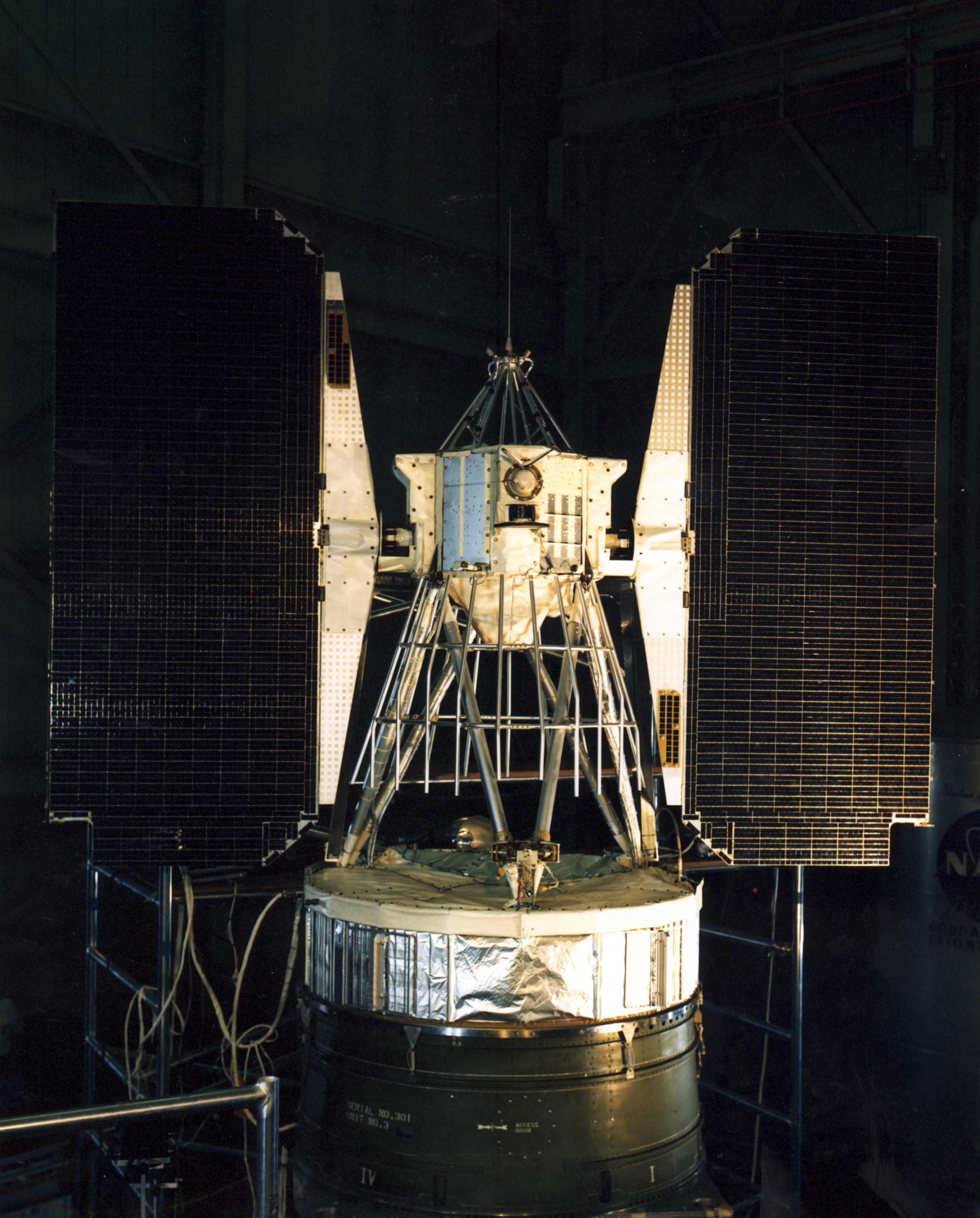 Nimbus-A, an advanced meteorological satellite, was launched August 28, 1964, from Vandenberg Air Force Base, California, on a Thor-Agena B launch vehicle. The satellite was designed in two sections. The lower circular ring housed the meteorological sensors and electronics. The upper hexagonal section contained the altitude control system and had two solar panels with 10,500 individual panels on each side. Nimbus-A weighed 830 lbs. and was comprised of 40,000 components. The satellite was built by General Electric Company and remained operational until September 23, 1964.